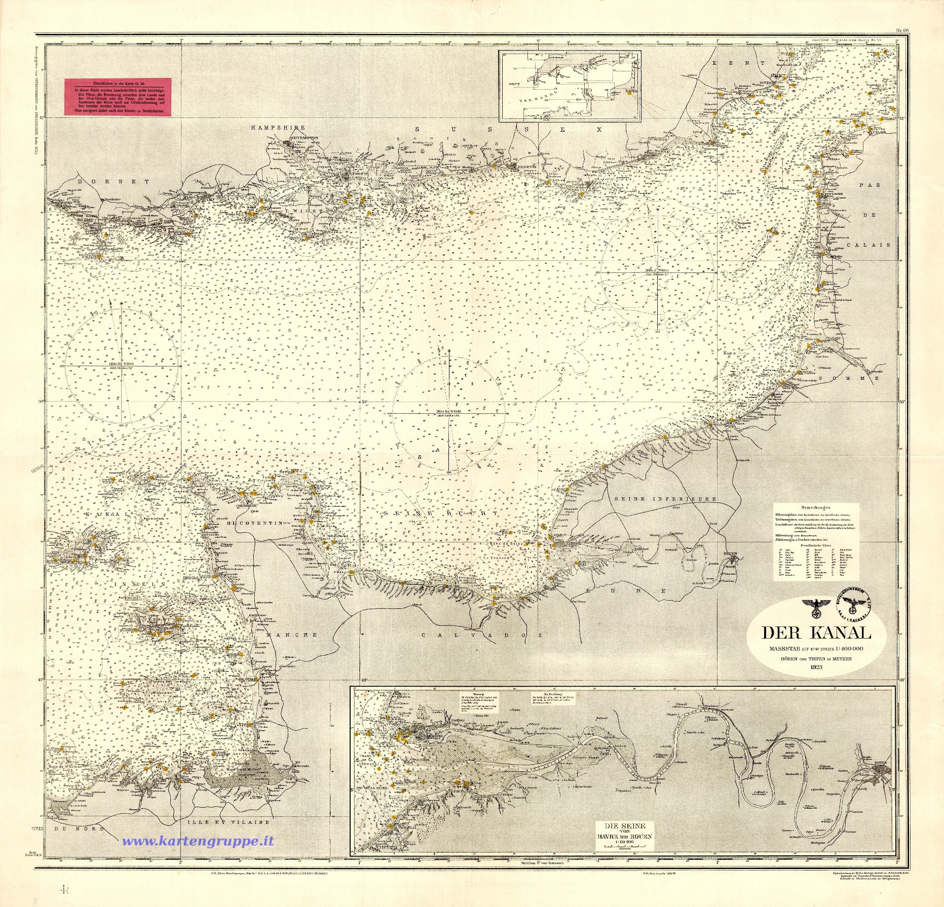 The Channel (Der Kanal), D.66 Kriegsmarine nautical chart, 1943, private collection